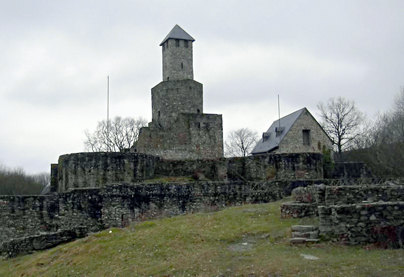 Castle of Grimburg, Germany